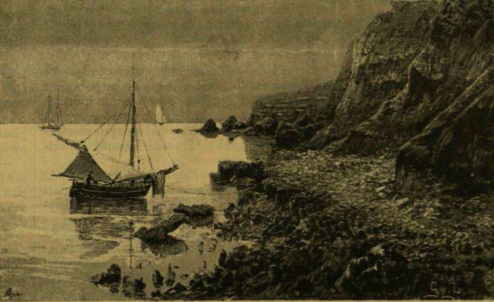 Brevilaqua strands.